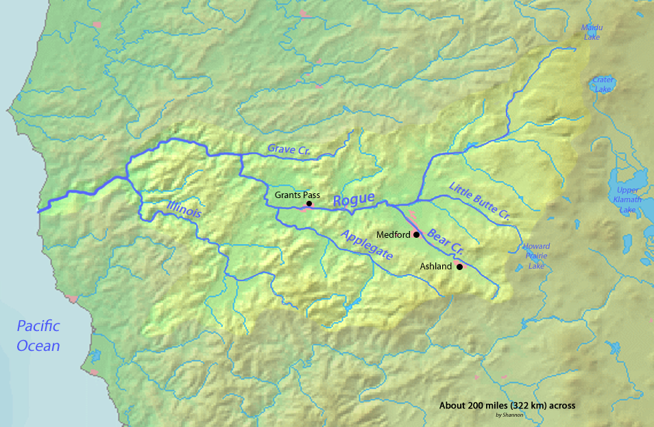 Map of the Rogue River — with tributary streams in its watershed—drainage basin. Flows from Cascade Range headwaters, through the Klamath Mountains, to the Pacific Ocean — in southern Oregon.